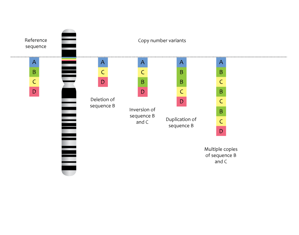 Example changes to the genome.